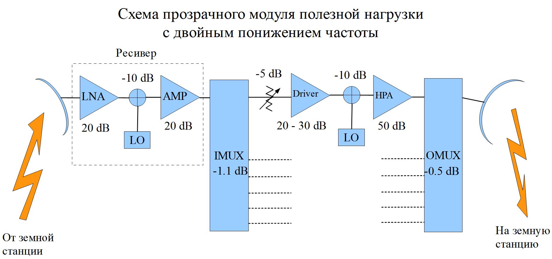 The communication payload repeater architecture